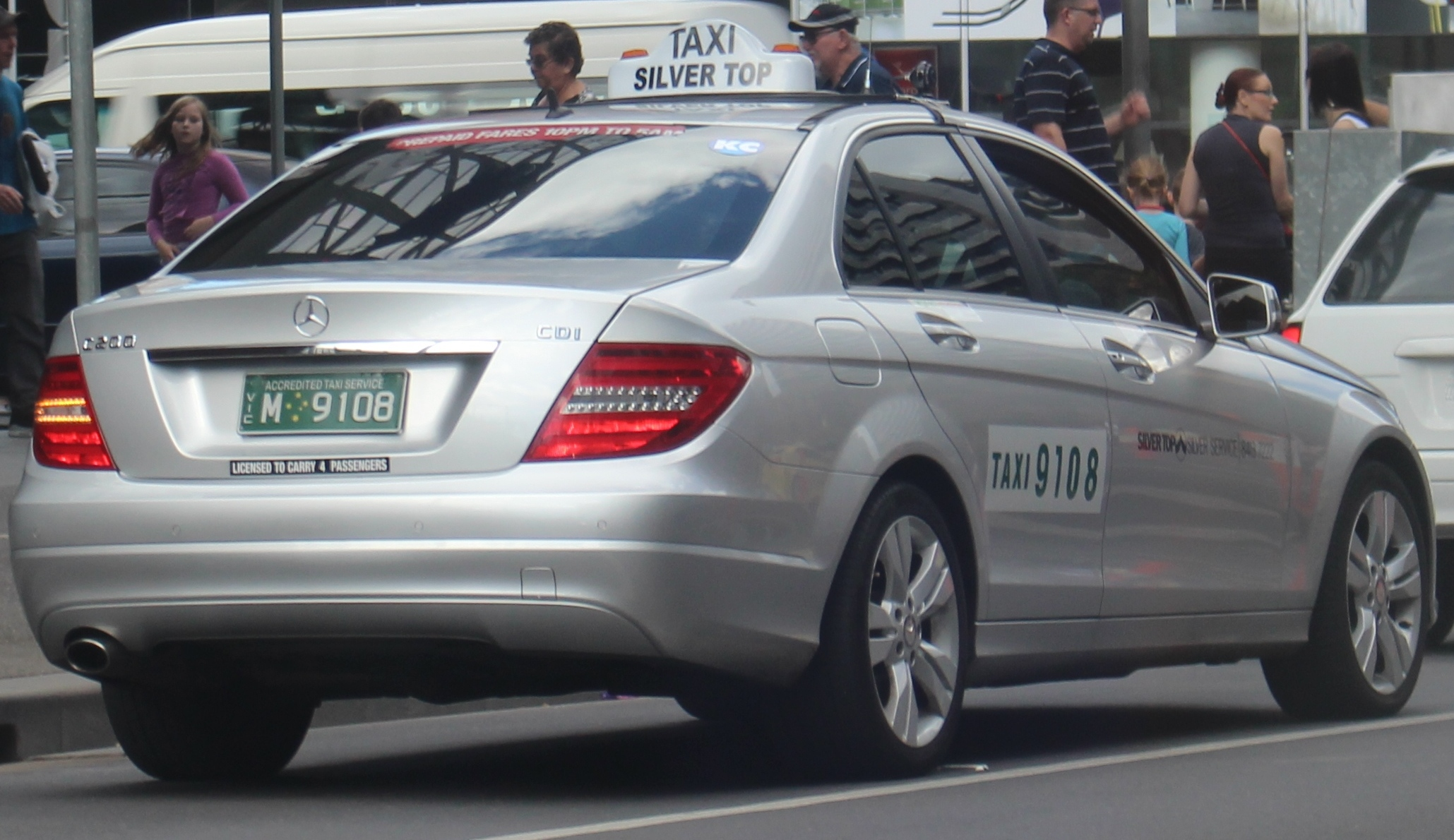 2013 Mercedes-Benz C 200 CDI (W204) sedan, Silver Top Silver Service. Photographed in Melbourne, Victoria, Australia Vehicle registration enquiry resultsJurisdictionVictoriaRegistrationM9108Chassis codeWDD2040012A863938Engine code65191331600299Compliance date2013-08Year of manufacture2013